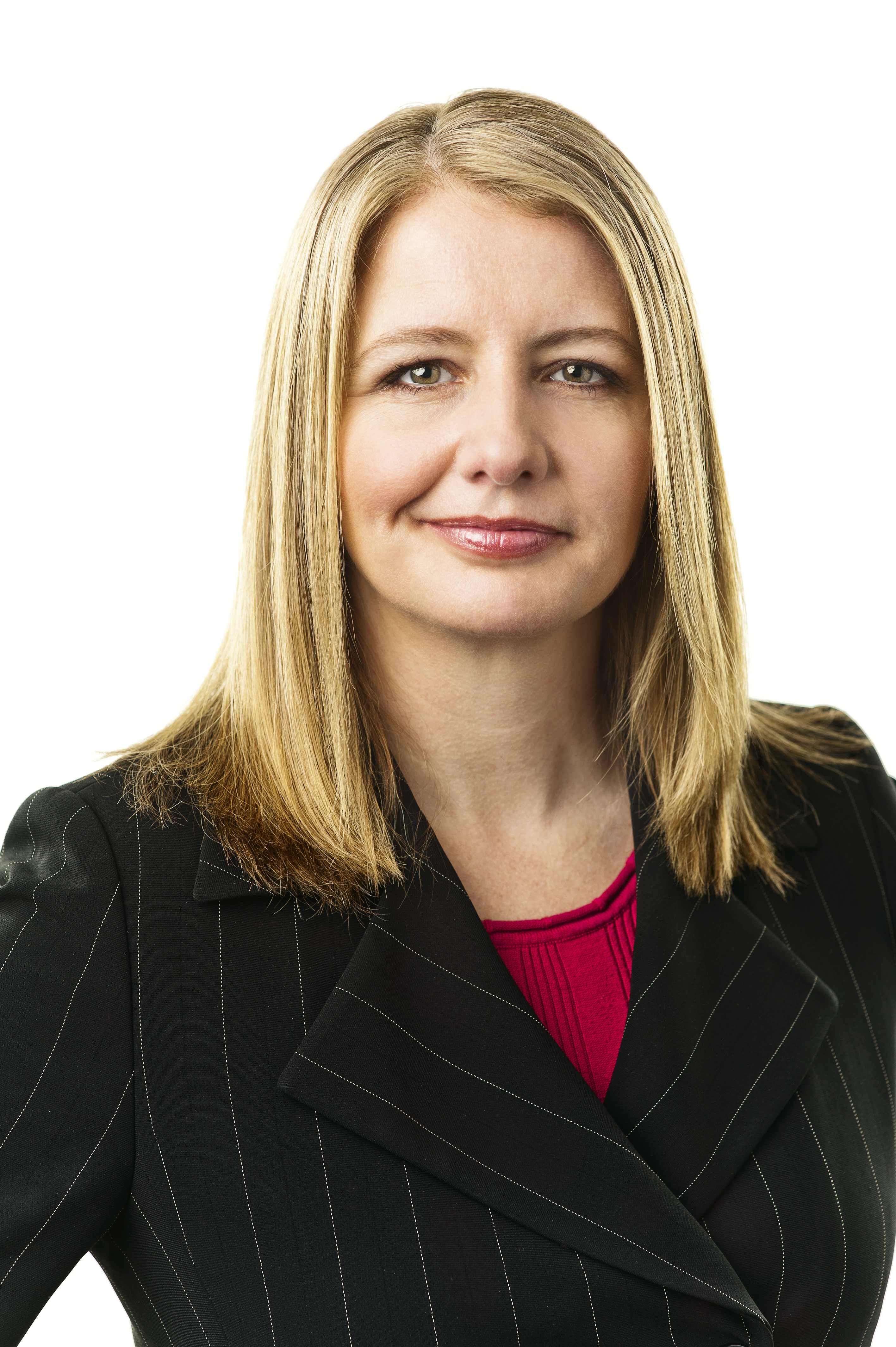 Tamara Vrooman is among the distinguished individuals to receive honorary degrees in 2016 from Simon Fraser University.